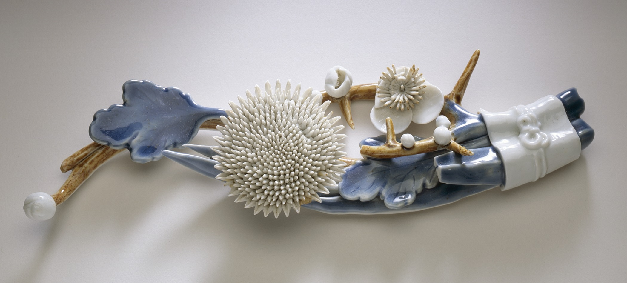 Japan, 19th century Tools and Equipment; weights Hirado ware; porcelain with underglaze brown and blue 6 3/4 x 2 1/4 x 7/8 in. (17.2 x 5.8 x 2.2 cm) Gift of Allan and Maxine Kurtzman (M.2001.193.1) Japanese Art